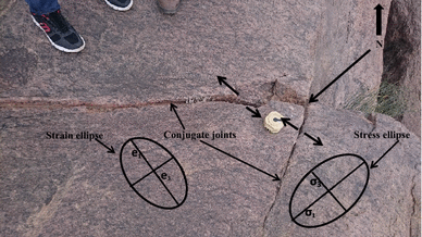 Fig. 6 Example of conjugate joints in the Augrabies Falls orthogneiss; the longer diameter in the stress ellipse indicates the direction of σ 1 and the shorter diameter the direction of σ 3 . The strain ellipse is deduced from the local stresses acting during generation of conjugate joints